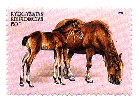 Stamp of Kyrgyzstan, The don horse